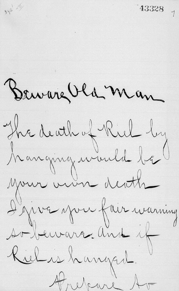 1885 Death Threat against Canadian John A. Macdonald